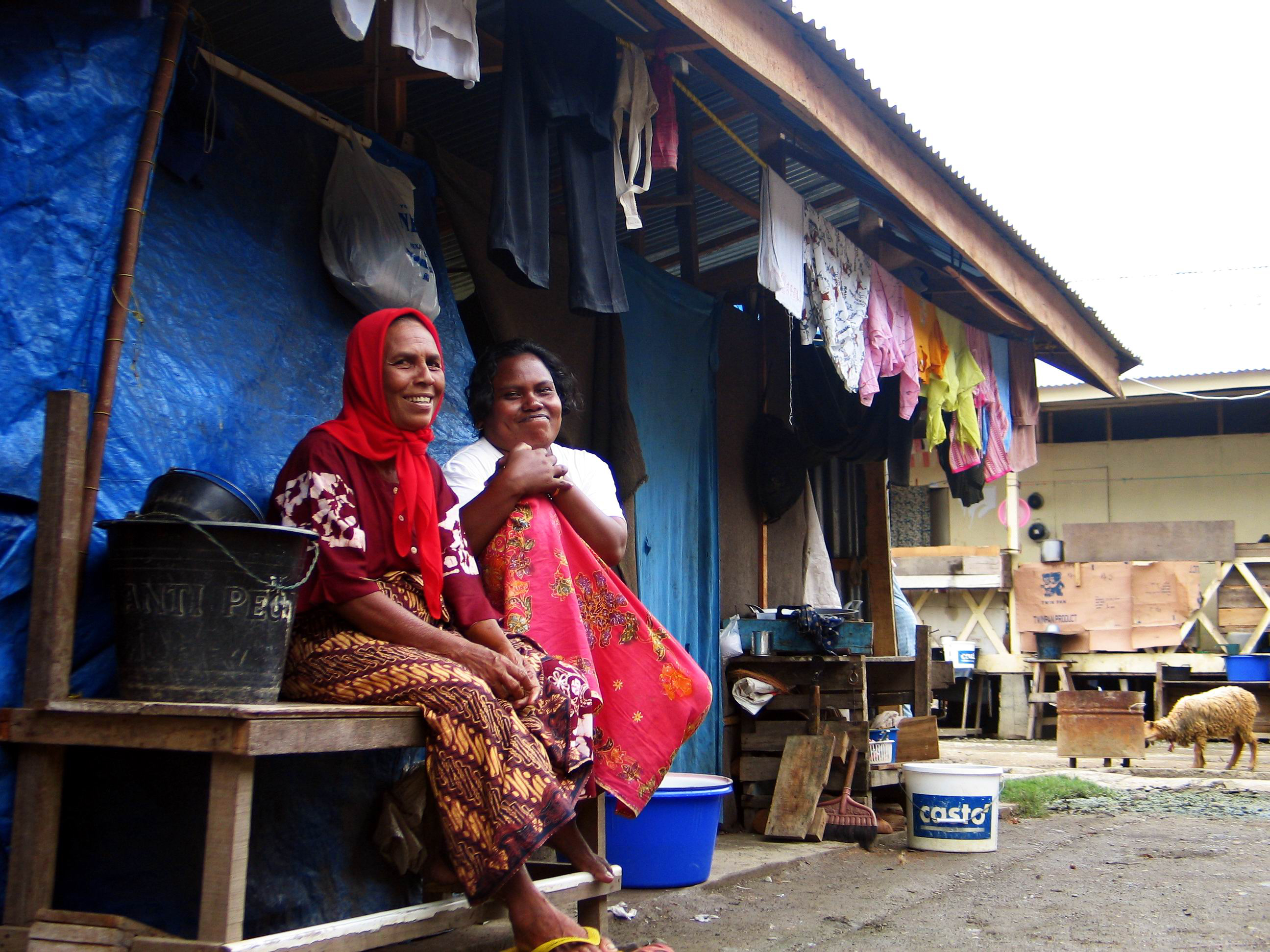 Local Indonesian women in their village